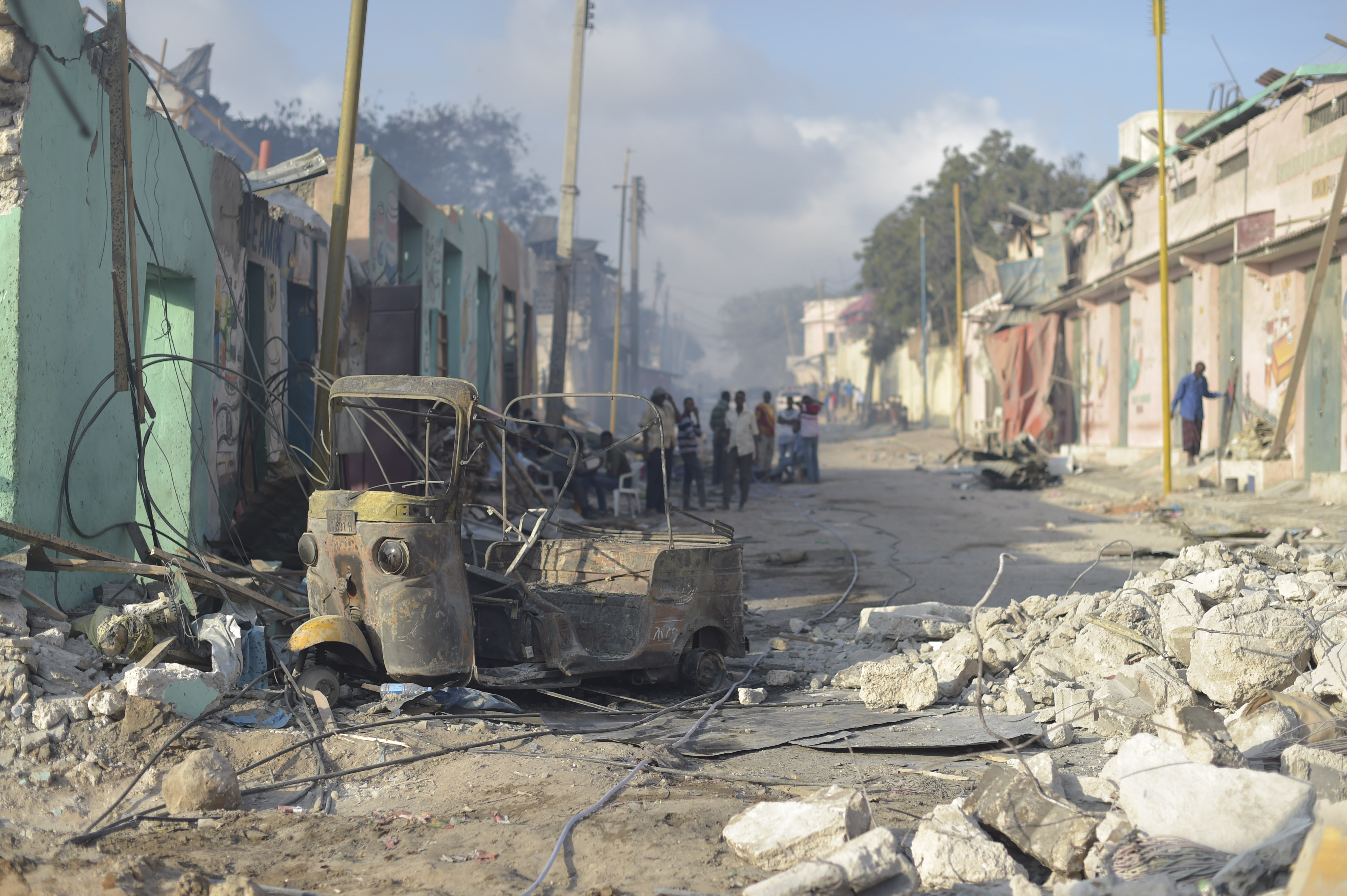 The African Union Mission in Somalia's Ugandan Contingent Commander, Brigadier General Kayanja Muhanga, visits the site of a VBIED attack conducted by the militant group al Shabaab in the Somali capital of Mogadishu on October 15, 2017